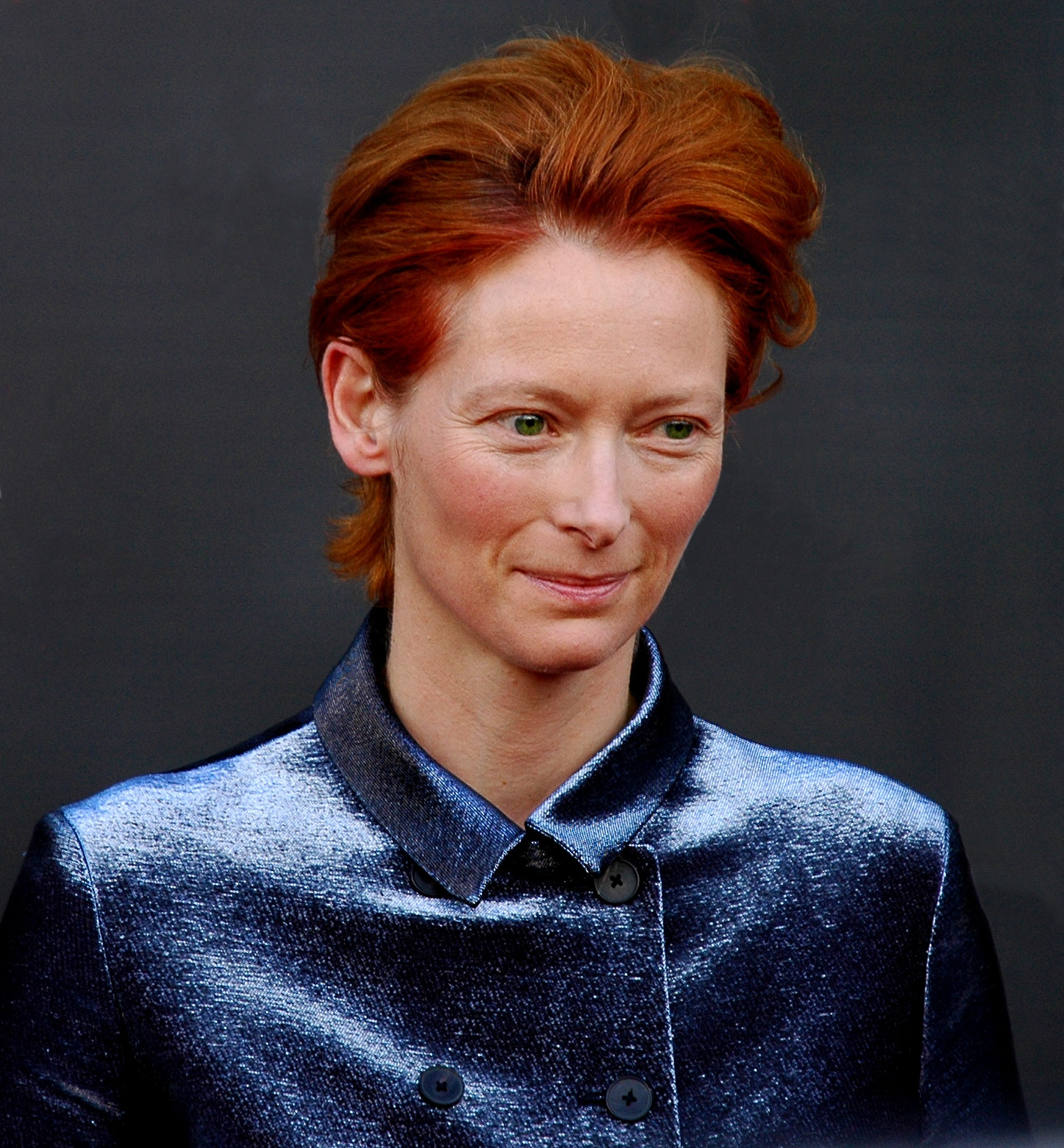 Tilda Swinton in Edinburgh, August 2007.